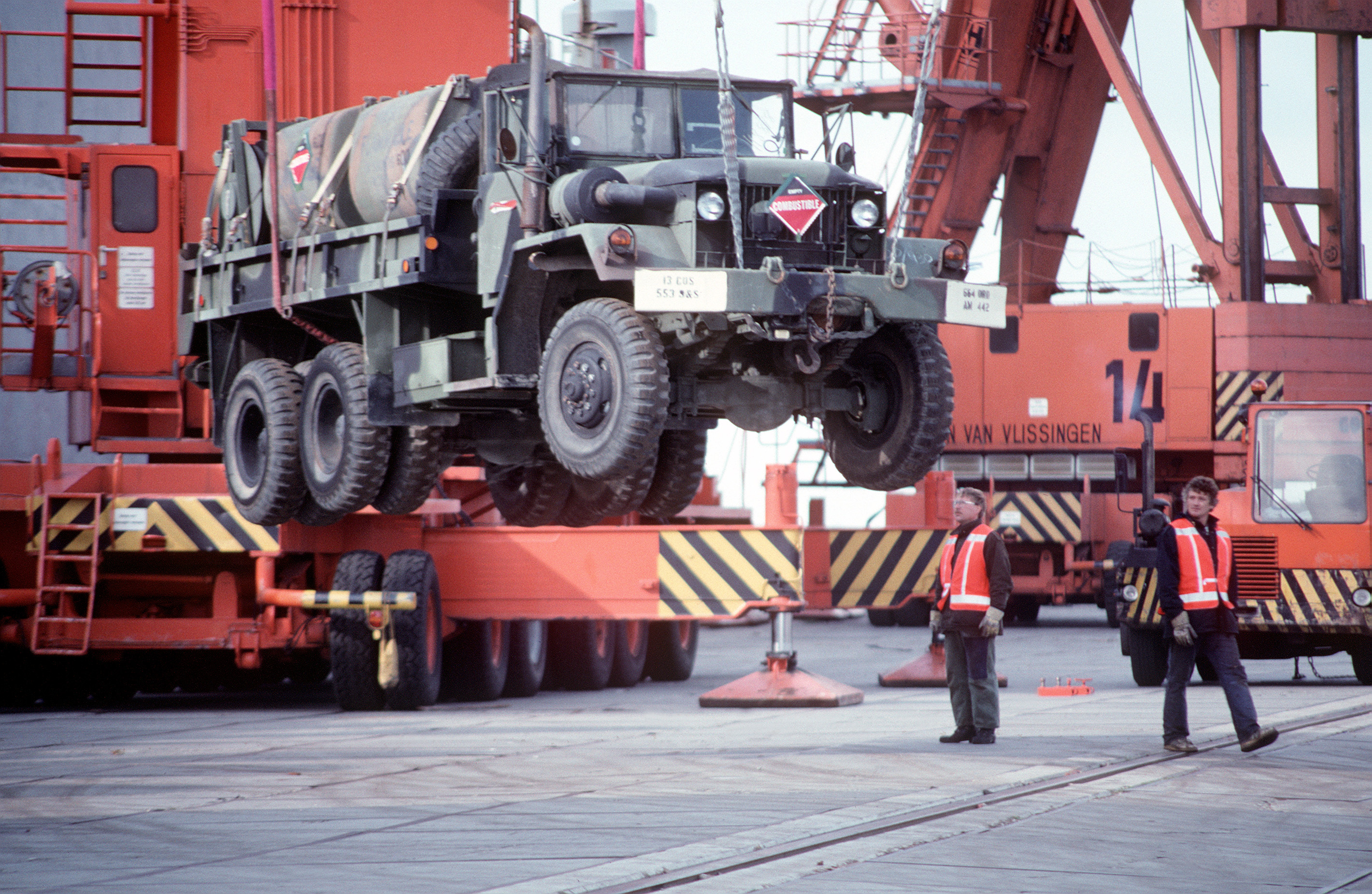 An M54 (incorrectly labeled as M813) 5-ton cargo truck fitted with refueling equipment is lowered to the pier after being hoisted from the deck of a ship during exercise REFORGER '91.